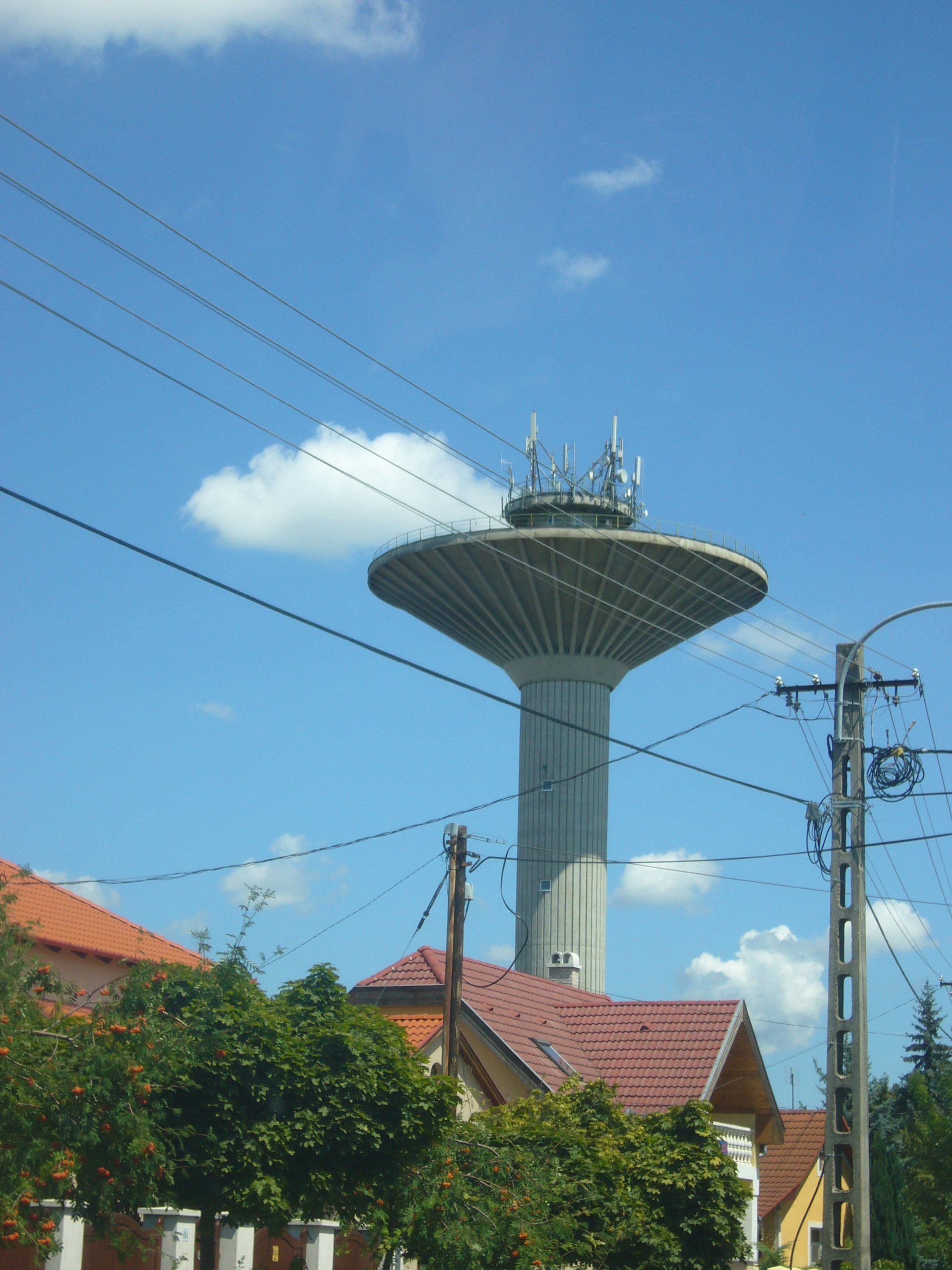 Watertower in Hajdúszoboszló